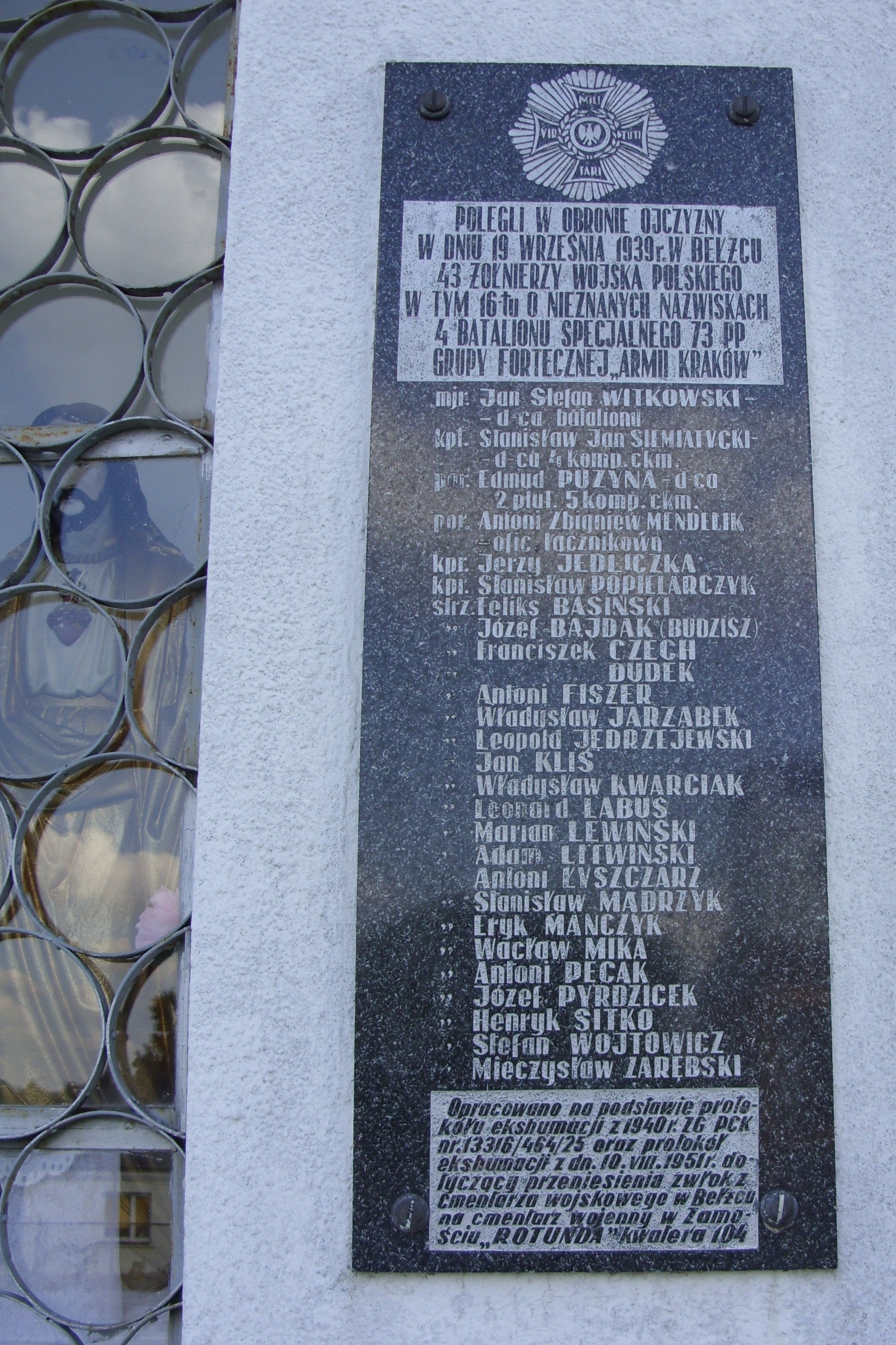 In the defense of the Homeland on September 19, 1939, 43 soldiers of the Polish Army fell in Bełżec during the Second World War. A plaque with the names of the fallen Polish soldiers from the 4th special battalion, 73 Infantry Regiment, Fortress Group "Amii Krakow", defenders of Poland and Bełżec against German invaders Adolf Hitler during World War II. At the monument of gratitude in Bełżec at Lwowska Street.